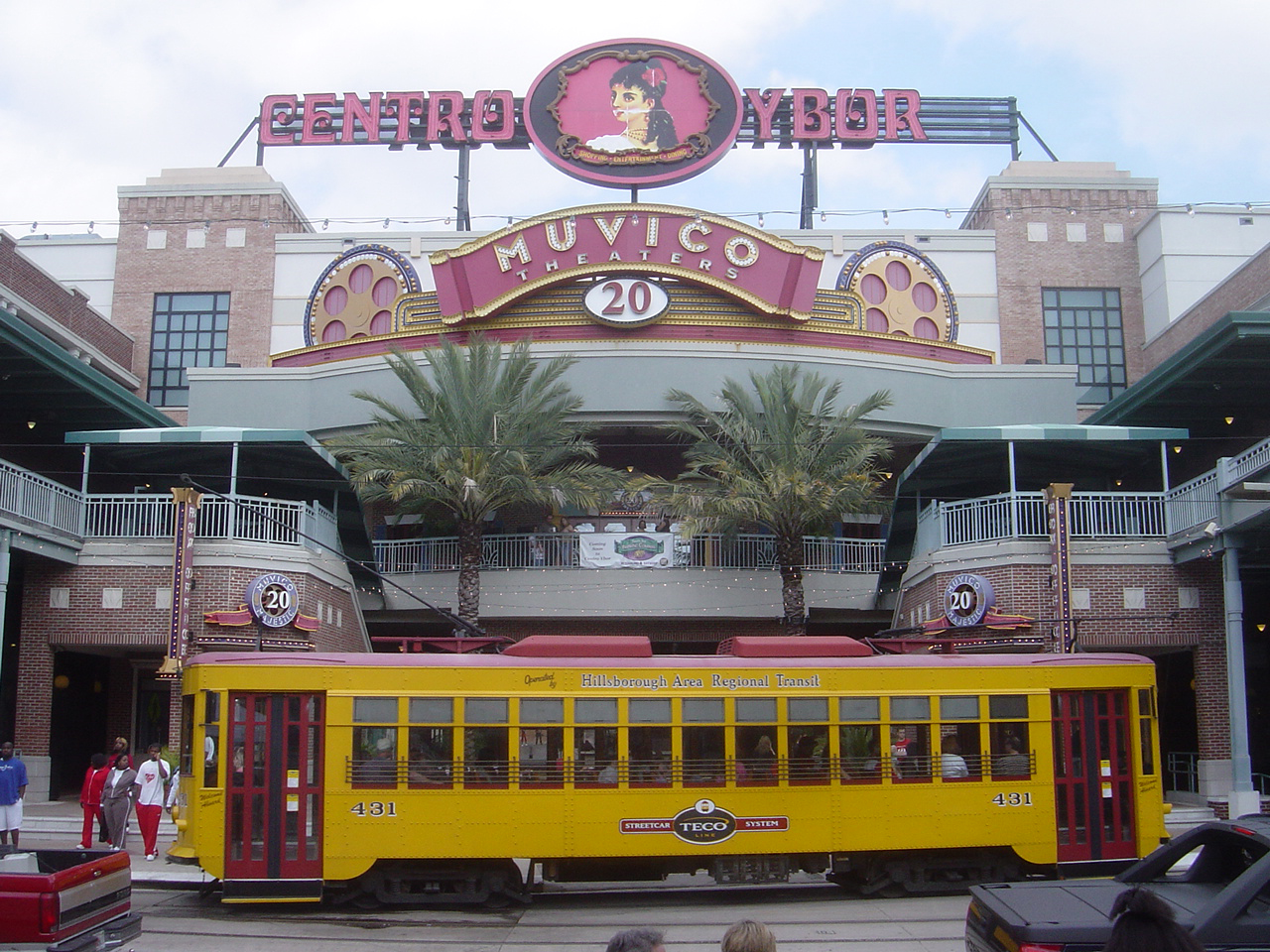 The Centro Ybor with a TECO Line Streetcar crossing in front, Ybor City, Tampa, Florida.